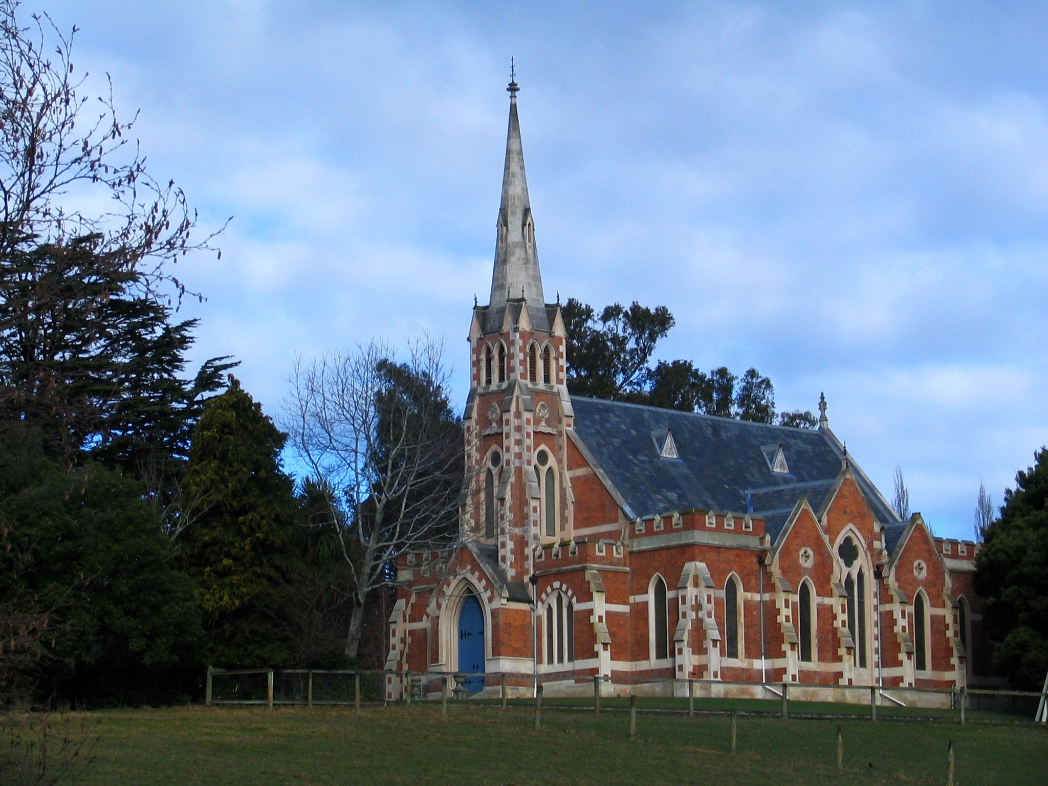 East Taieri Presbyterian Church, Mosgiel, New Zealand. Category II History Place, Register Number: 2260